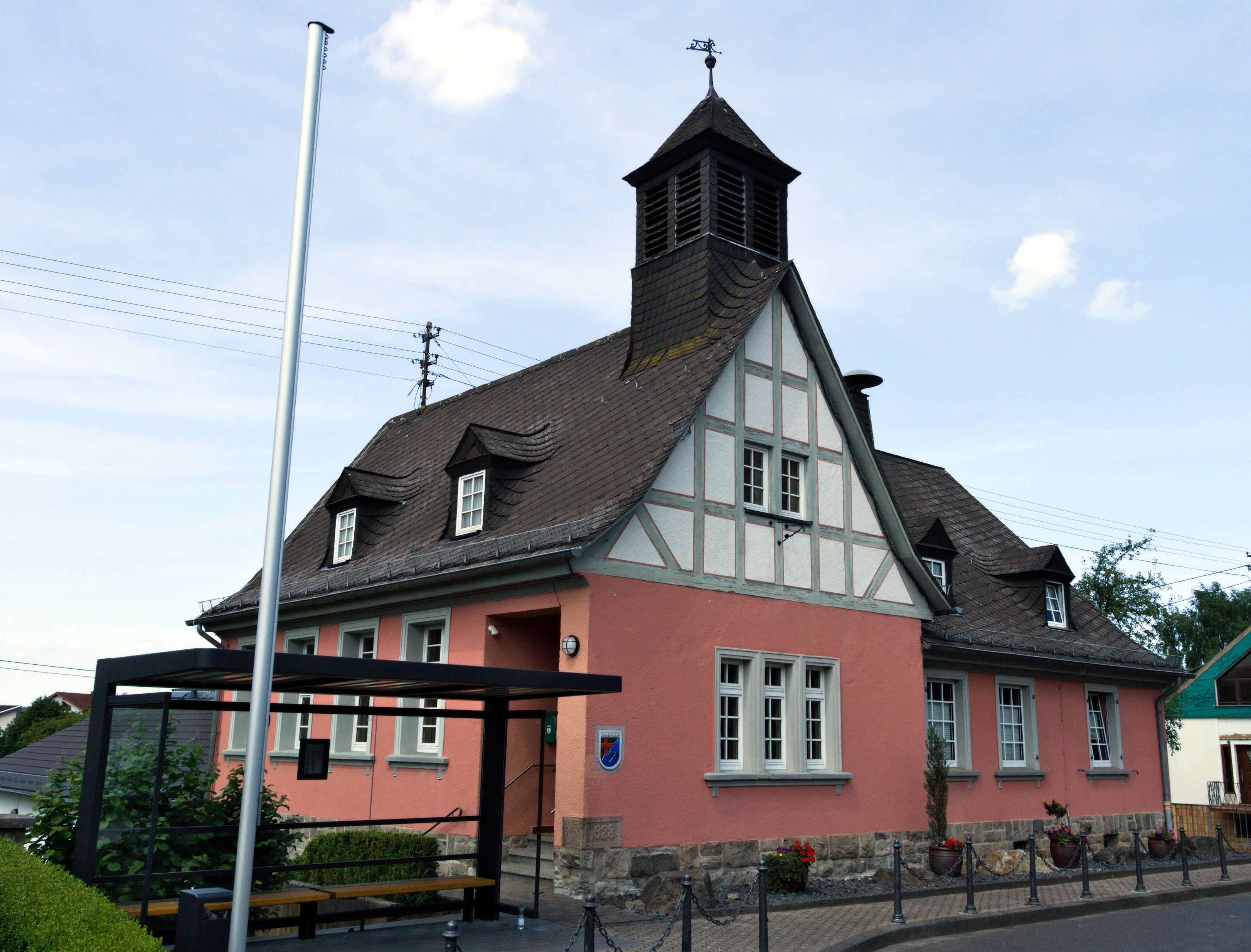 Village community house, Wirscheid, Westerwaldkreis, Germany. Seen from southeast.